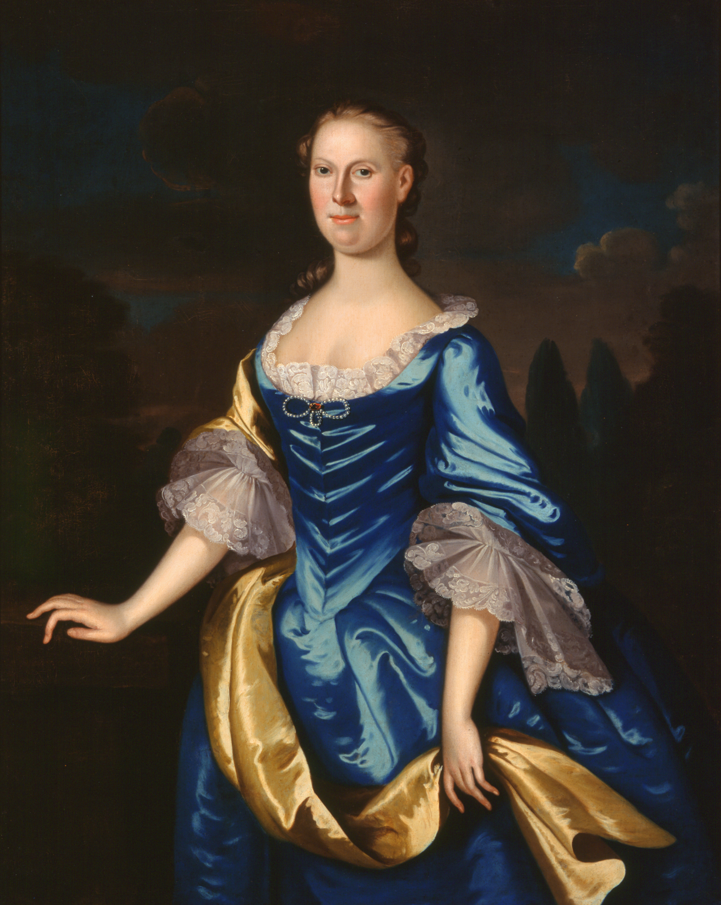 John Hesselius (American, 1728–1778) Mary Clare Macubbin, Mrs. John Brice, ca. 1766 Oil on canvas 50 1/2 × 40 in. (128.27 × 101.6 cm)